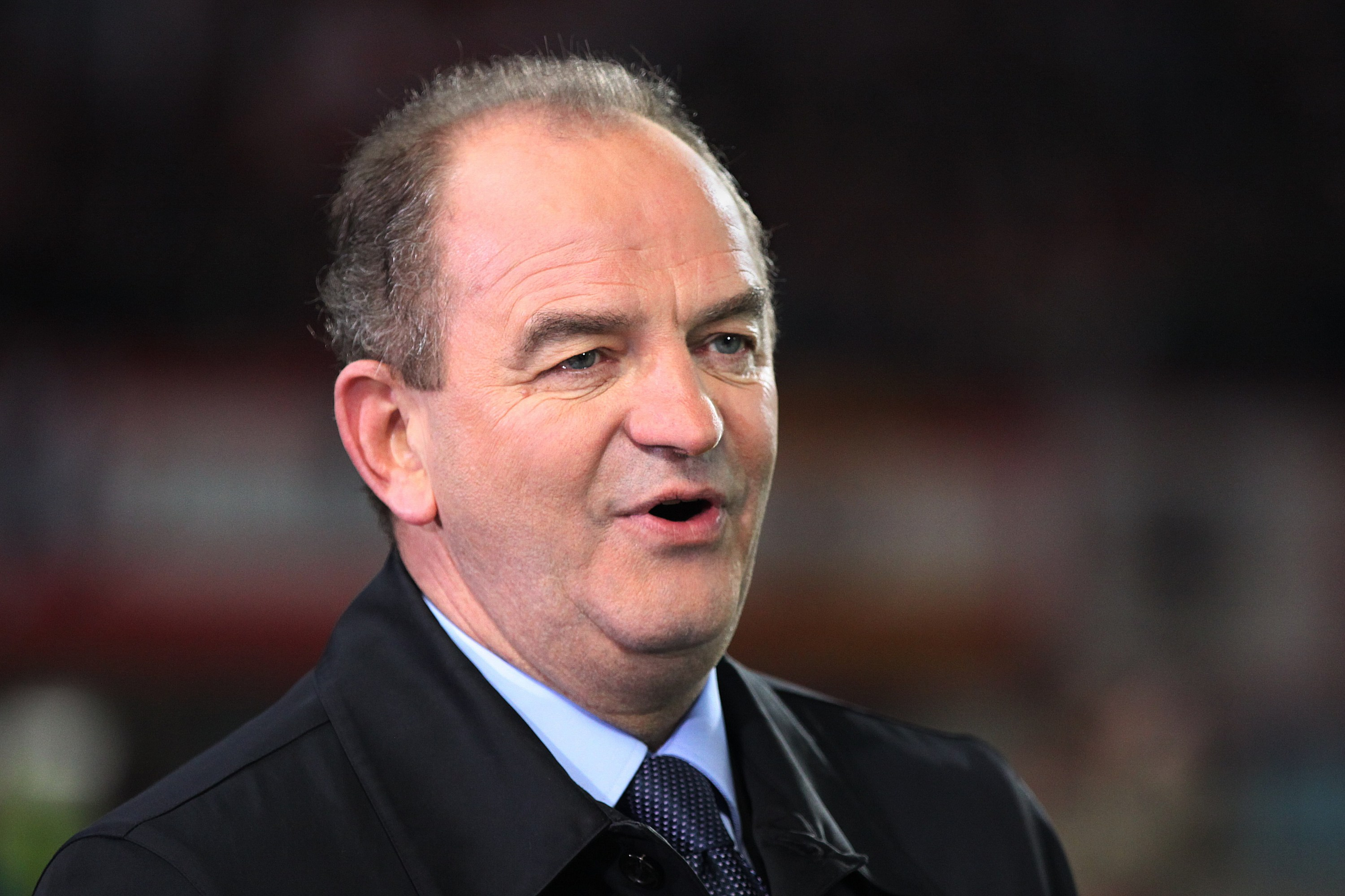 UEFA Euro 2016 qualifying: Austria vs. Russia (1:0 / 0:0) at 2014-11-15 in the Ernst-Happel-Stadion in Vienna. – The photo shows the former Austrian teamplayer and manager Herbert Prohaska as TV-commentator for the ORF].